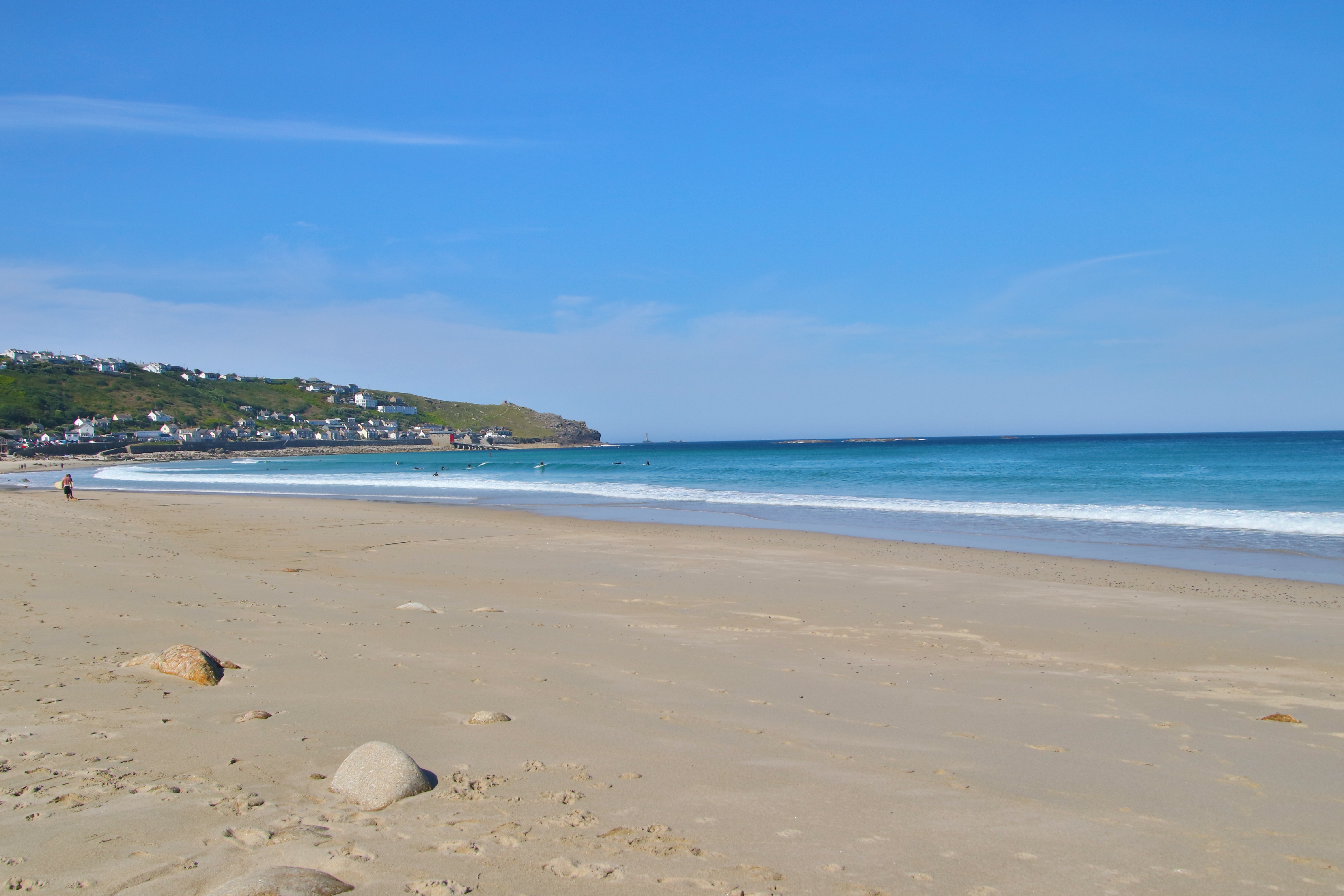 Sennen Cove Beach This photo was taken by Tom Corser and is © Tom Corser 2020. This photo may be reproduced under the terms of the Creative Commons Attribution-ShareAlike 3.0 Unported Licence [1] (unless otherwise stated). Please credit this photo Tom Corser If using this photo, make sure you properly credit and specify the licence that this photo is licensed under. (E.g. "Photo by Tom Corser Licensed under Creative Commons Attribution-ShareAlike 3.0 Unported Licence: If you would like to use this photo under a different license, please contact me via or . Attribution: Tom Corser